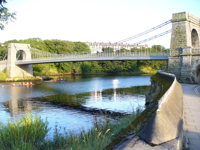 Wellington Suspension Bridge The "Chain Briggie" was built in 1830 and was the first bridge to connect Aberdeen with Torry - on the opposite, southern bank of the Dee.